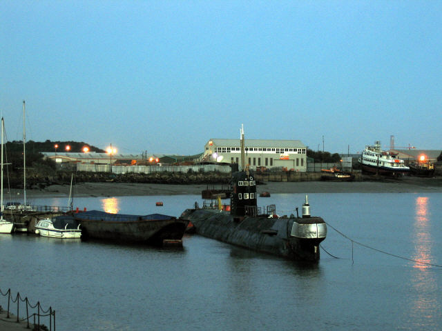 The Soviet submarine B-49, Strood. The submarine, seen at dusk, was formerly berthed near the Thames Barrier but has ended up here on the left bank of the Medway at Strood.